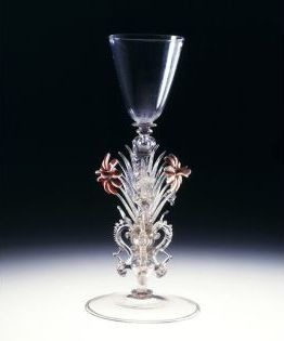 Goblet, 1675-1725, Venice V&A Museum no. 108-1853 Techniques - Blown glass, with mould-blown and tooled stem with opaque red and white details Dimensions - Height 26.0 cm From about 1675, Venetian glass workers made increasingly complex drinking glasses. Some of these were so fragile that they must have been almost impossible to use. The most exuberant examples were probably intended as presentation pieces to show off the donor's wealth and sophistication. Frederik IV of Denmark received a large collection of Venetian glass in this style when he visited the city in 1708-1709. He constructed a special display room to house this collection at his Rosenborg Castle.